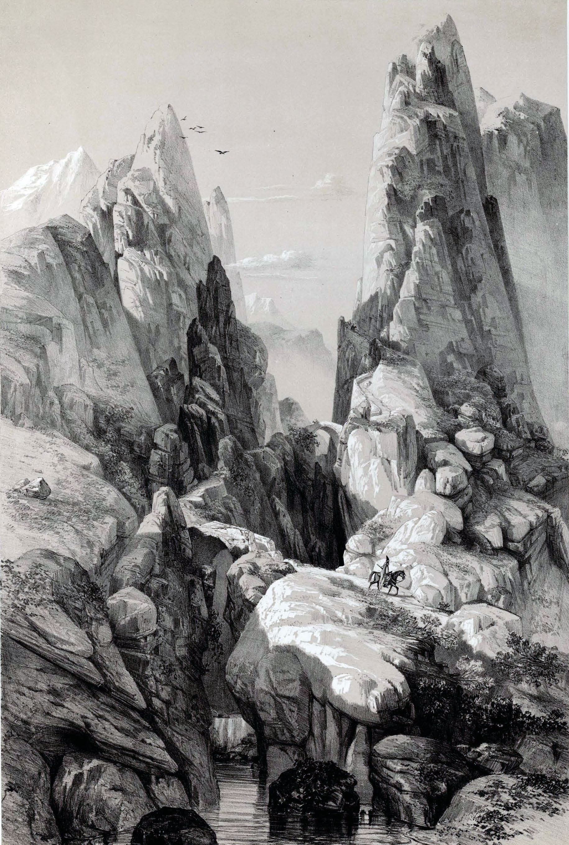 Defile Pir a zan